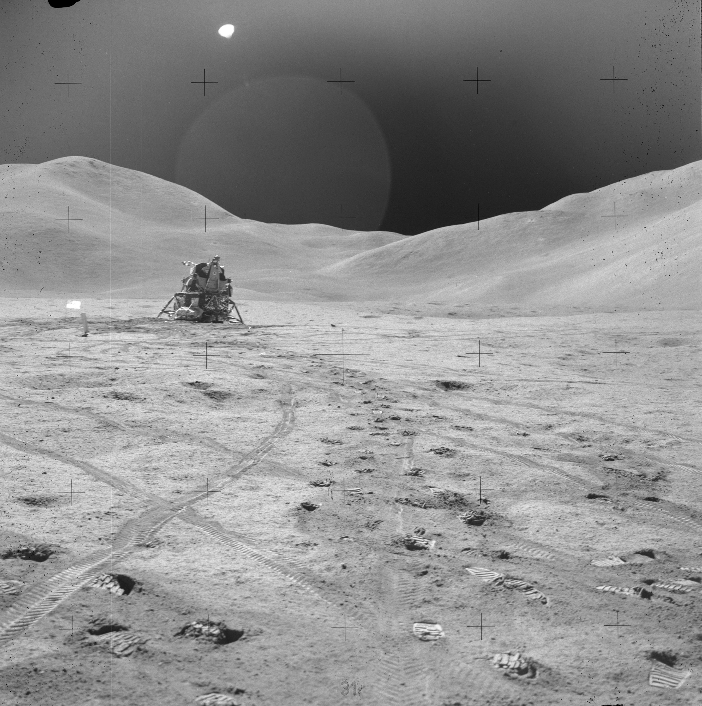 Apollo 15 on lunar surface. This up-Sun picture of the LM is from a pan Jim took at the ALSEP site at the start of EVA-3 at about 164:26:56 MET.